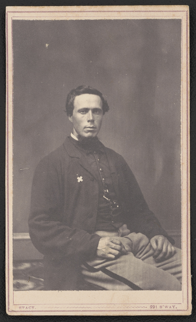 Title: Sergeant William Cunningham of Co. D, 4th Vermont Infantry Regiment in uniform] / Stacy, 691 B'way Abstract/medium: 1 photograph : albumen print on card mount ; mount 11 x 6 cm (carte de visite format)